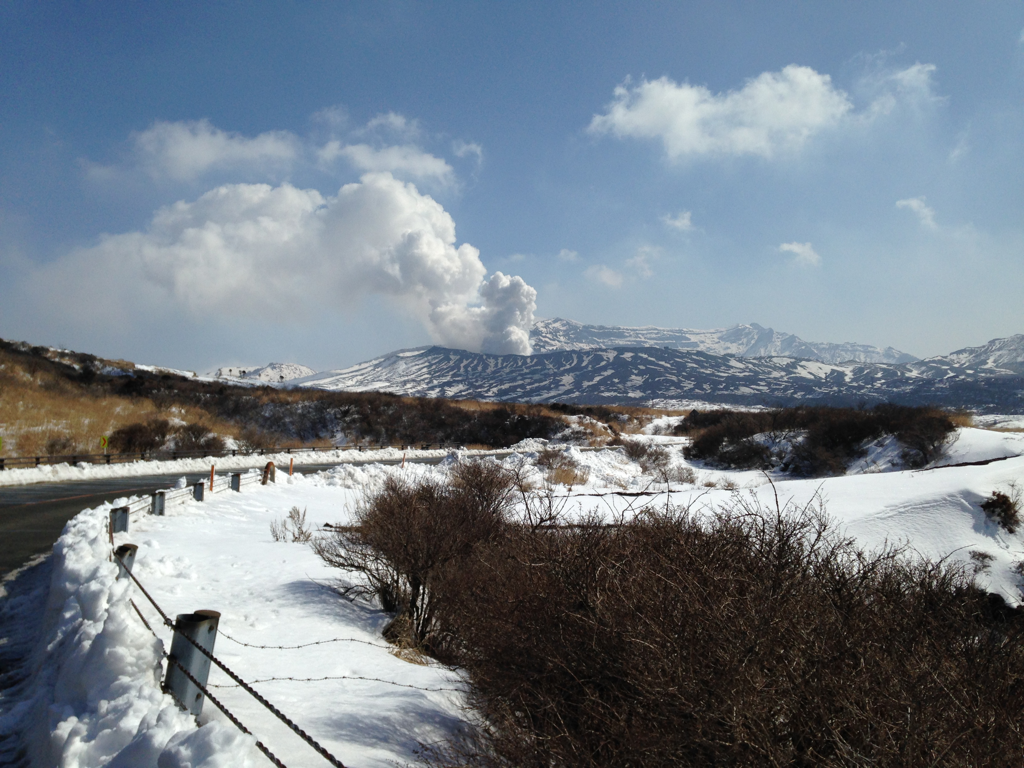 Mount Naka in the Aso Caldera, as seen from the Kumamoto Prefectural Road Route 111